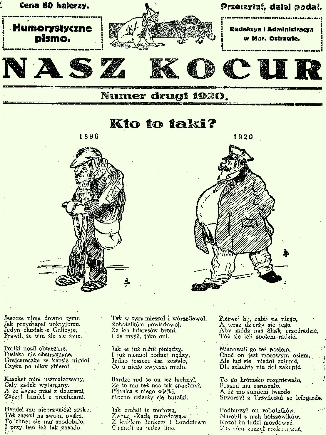 Title page of humoristic magazine Nasz Kocur (Our Tomcat) published by Teschen Silesian politician Josef Kozdon in 1920. The magazine contained anti-Polish propaganda.